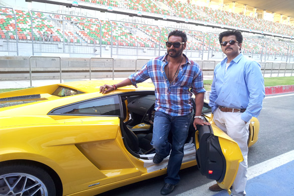 Ajay Devgn & Anil Kapoors 'Tezz' race at F1 Circuit